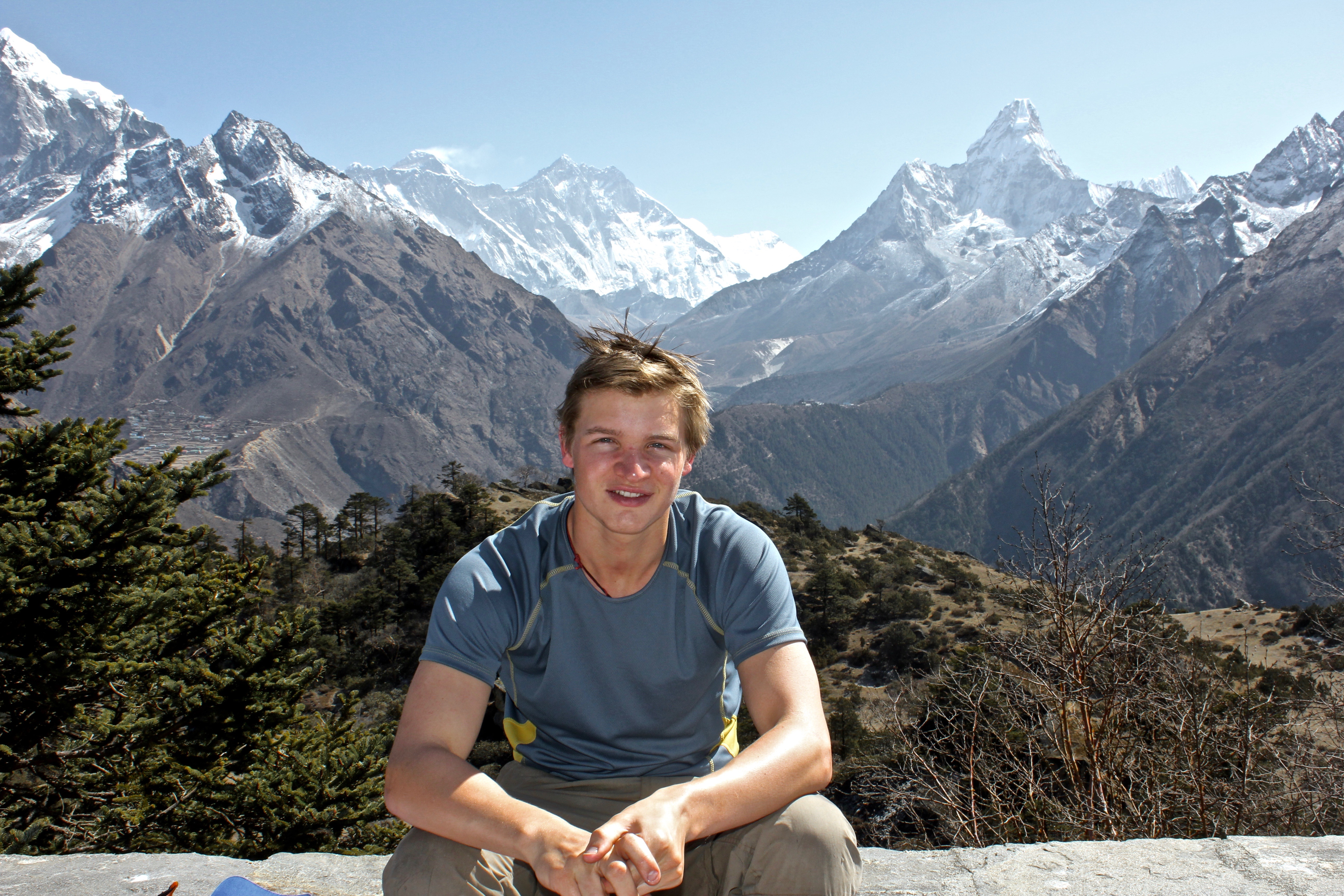 Foothills Of The Himalayas